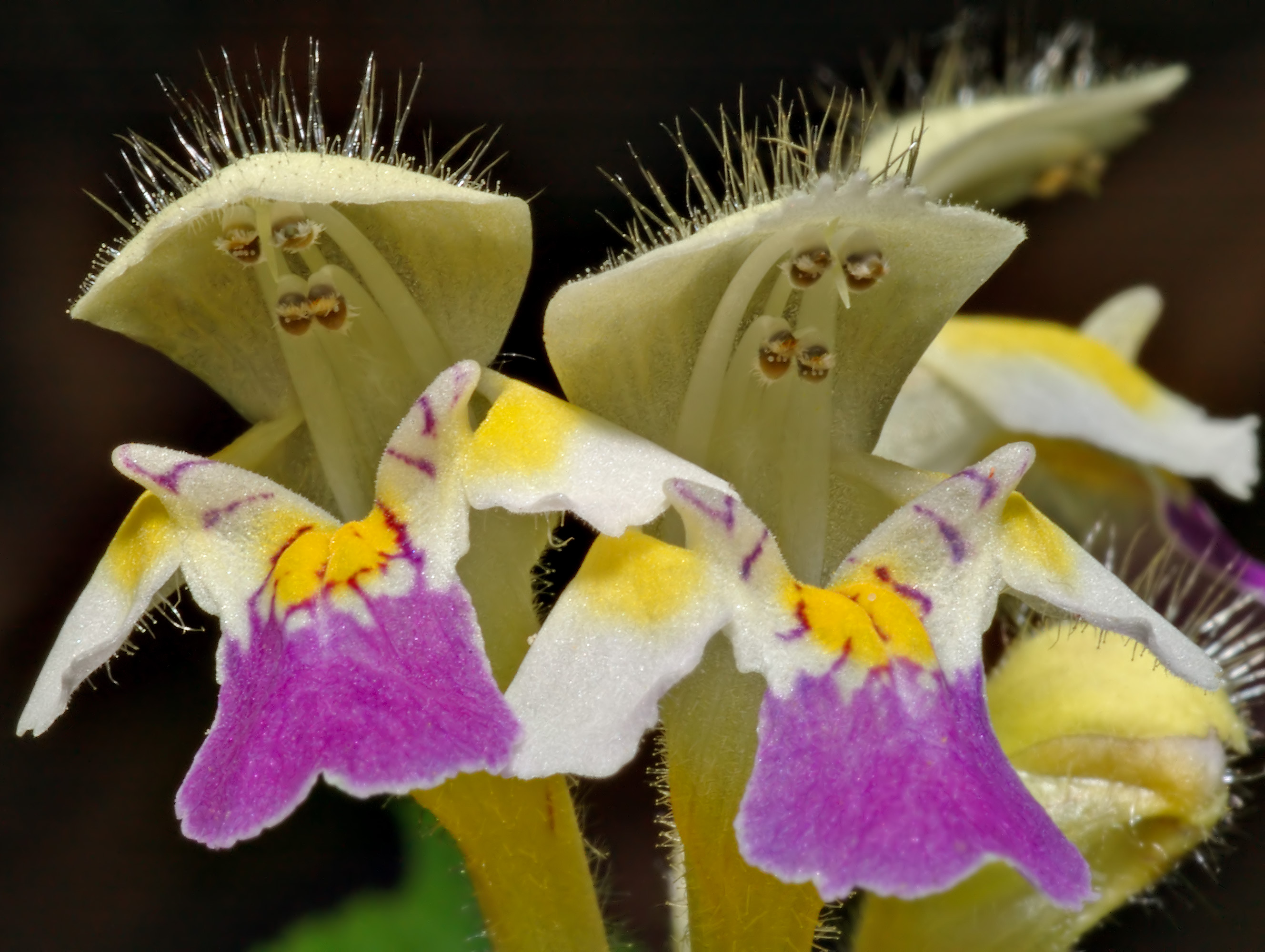 This image shows a Large-flowered Hemp-nettle blossom (Galeopsis speciosa). Thanks to Franz Xaver for identifying this plant.